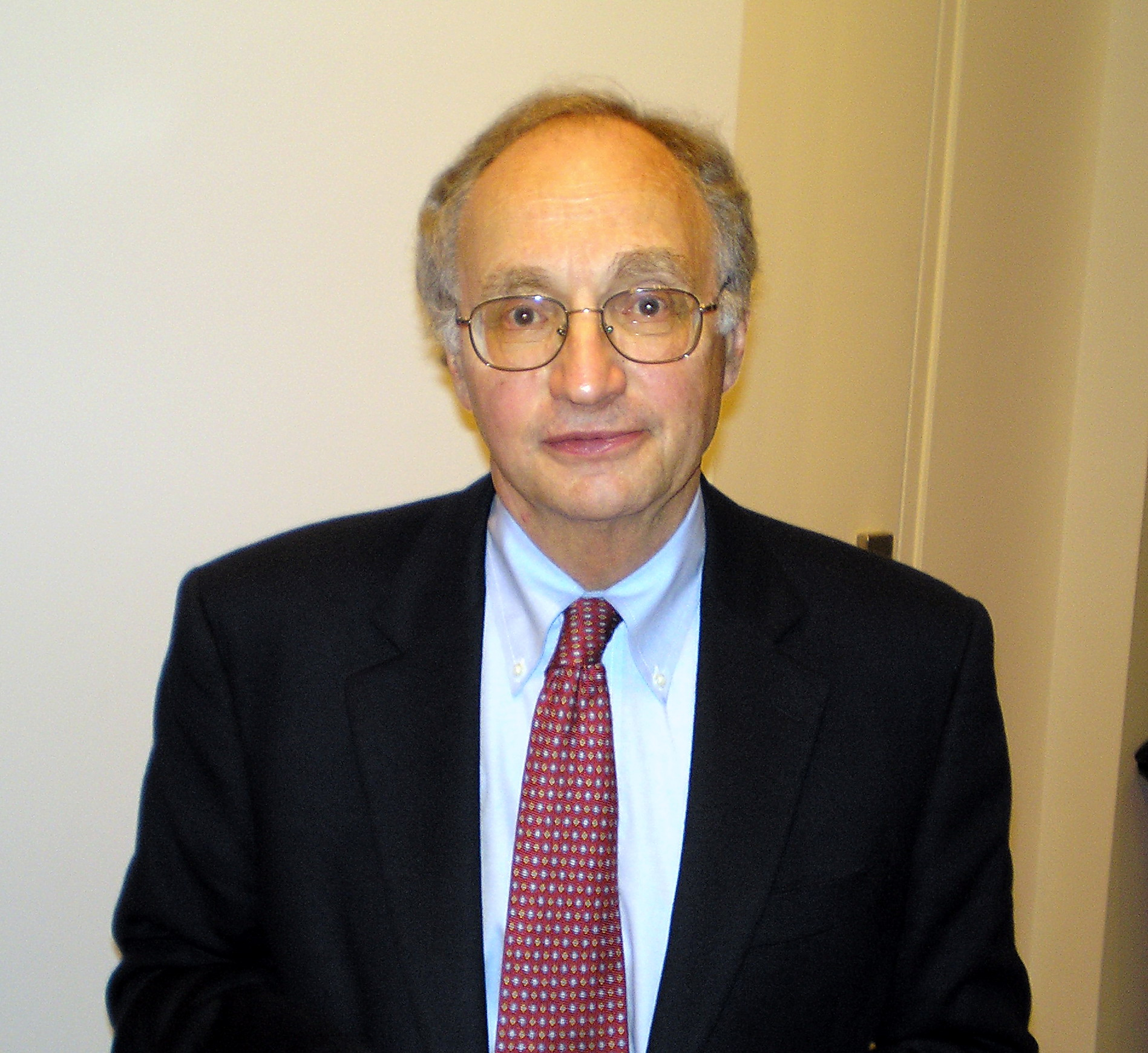 Louis Uchitelle by David Shankbone, New York City